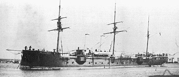 Reina Mercedes Cruisier